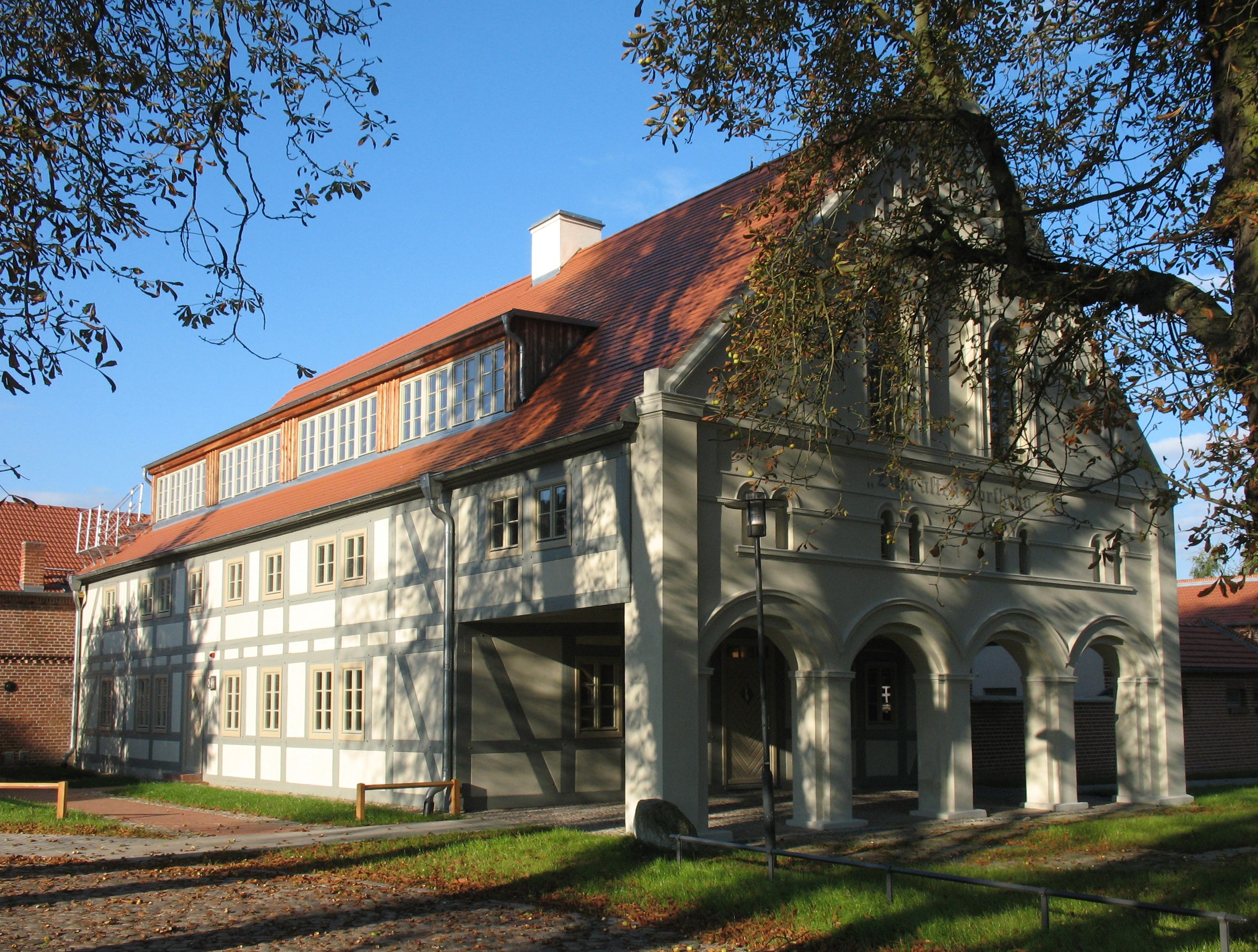 Alcove house in Kremmen-Staffelde in Brandenburg, Germany